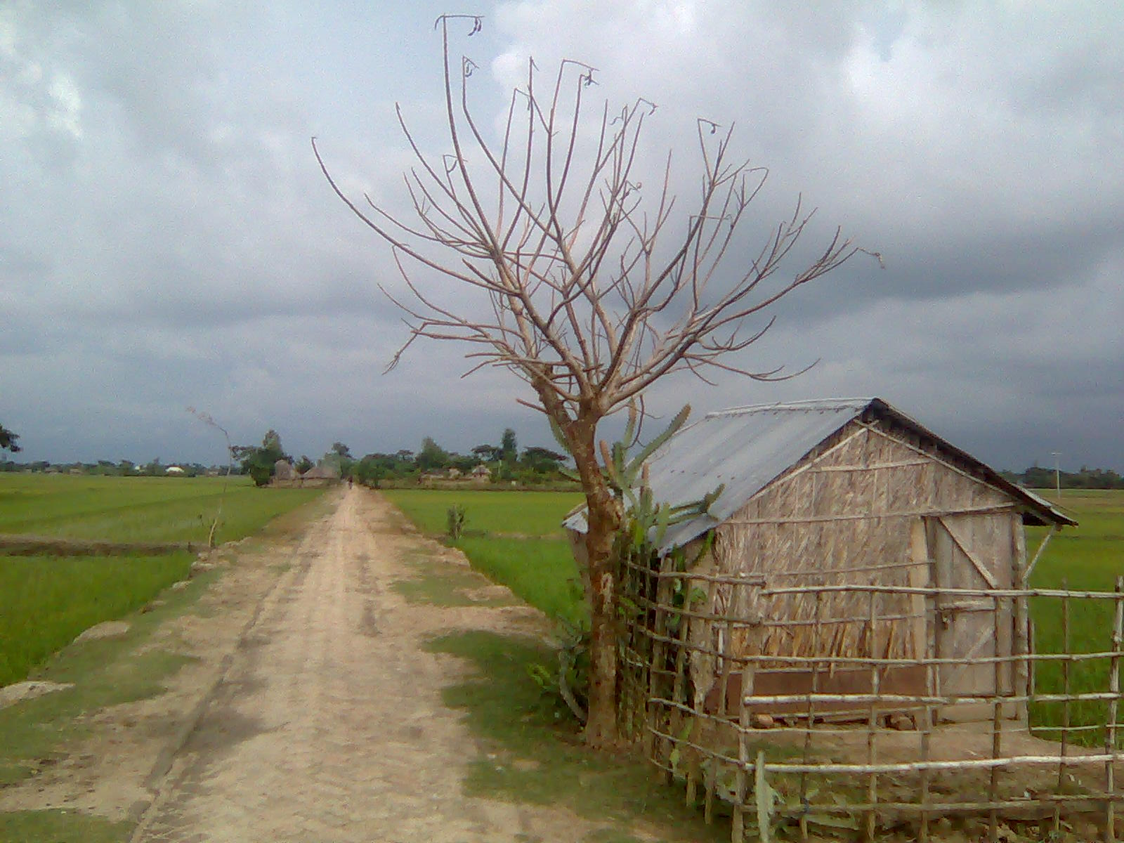 Natural beauty of a village, Bhagbah, Koyra, Bangladesh